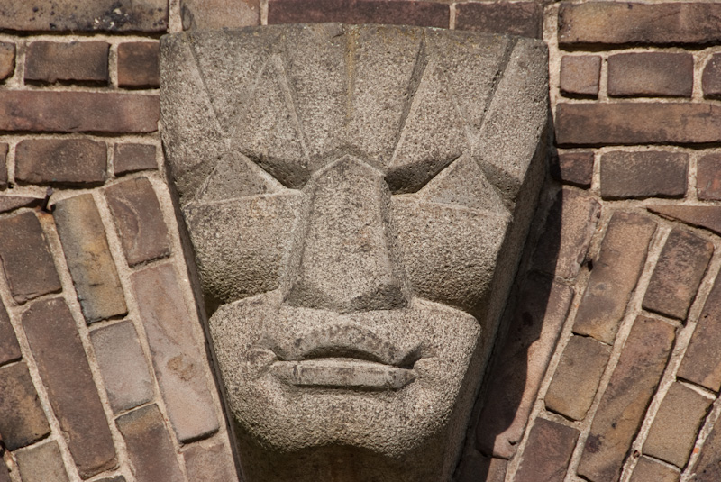 building designed by architect Blaauw, sculpture J. Polet